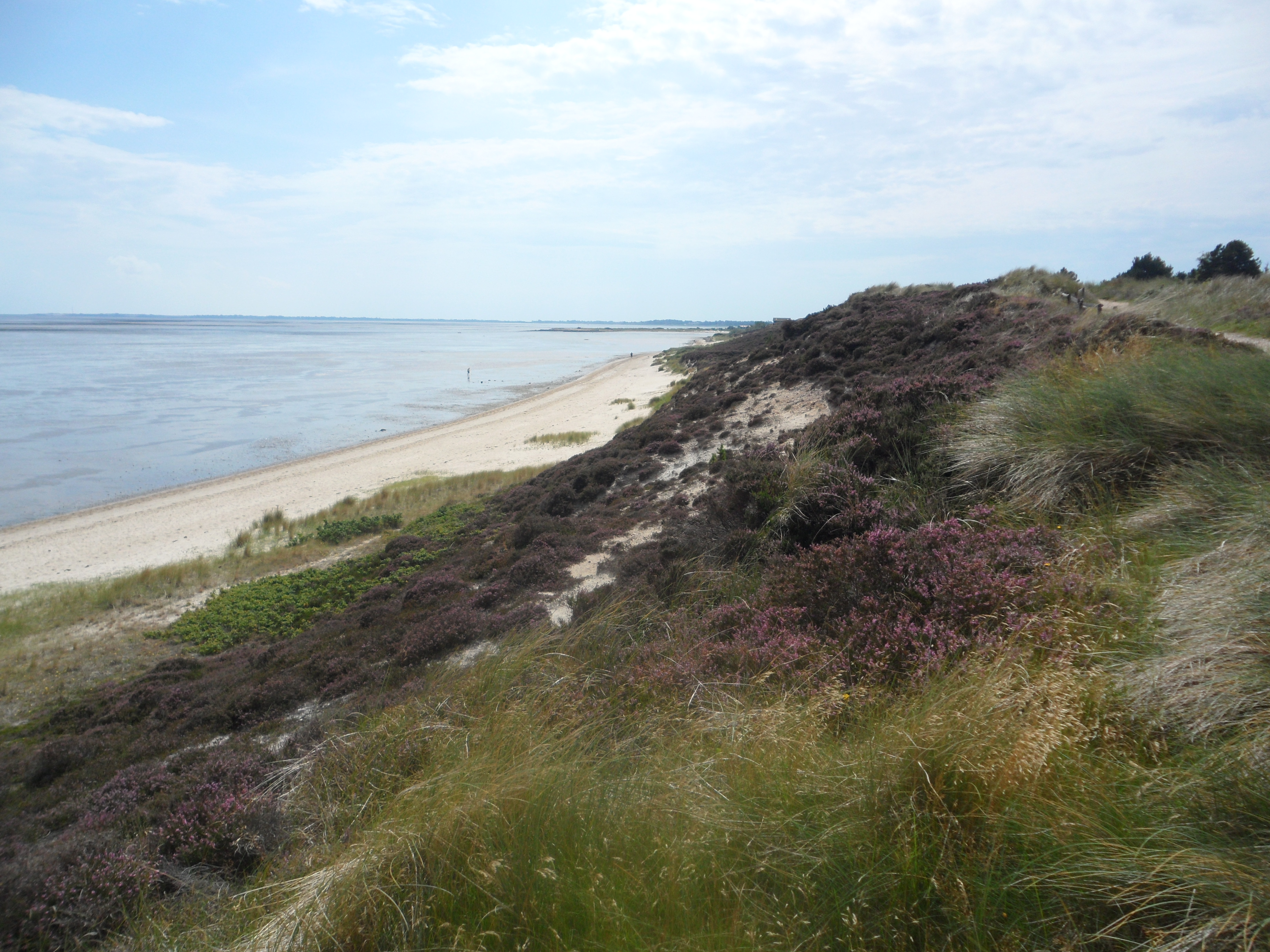 Kliff and salt marches in the nature reserve Braderuper Heide on island Sylt